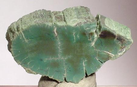 Chalcedony (Var.: Petrified Wood) Locality: Holbrook, Navajo County, Arizona, USA (Locality at ) Size: 3.8 x 2.1 x 1.6 cm. An UNUSUAL and UNIQUE fossil from Holbrook, Arizona! This is a polished slice from vanadium-rich petrified tree limb. The unique green color is caused by vanadium and the bark on the outer rind is very well preserved. The piece is probably from the famous Petrified Forest.